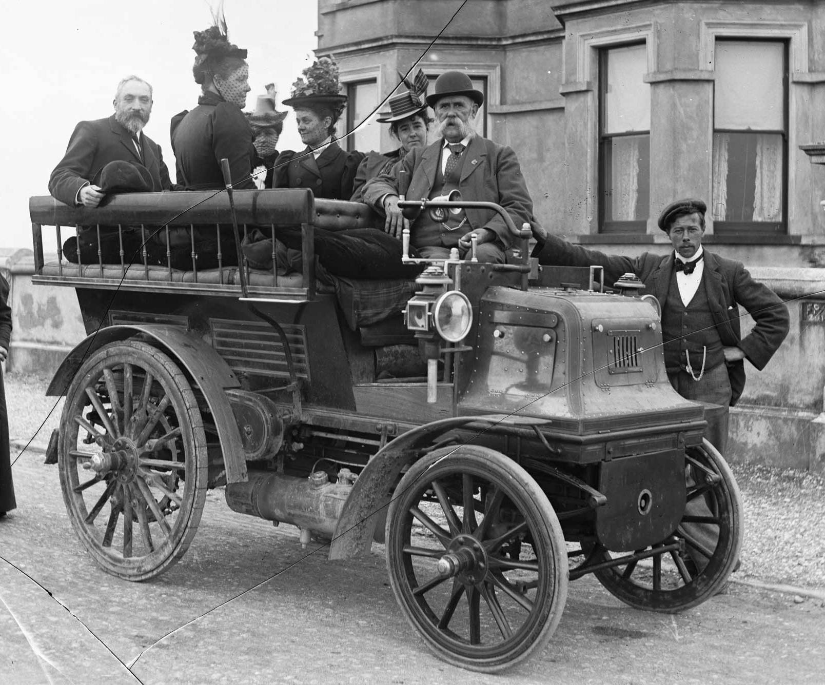 Motor Car at Larne Beautiful vehicle at Larne, Co. Antrim. Thanks to Niall McAuley, we now have an exact location for this photo on Chaine Memorial Road, right opposite the Chaine Memorial, a lighthouse replica of an Irish Round Tower erected in memory of James Chaine, a former M.P. for Larne... One of our NLI Facebook people has identified the gentleman with the impressive moustache in the front seat as Larne hotelier, Henry McNeill, and also reports that this vehicle was said to be Larne's first motor vehicle. We came across McNeill's Hotel in Larne before... Following much discussion below on the make and model of the car, the final word has gone to Bob Montgomery 2012, and this is definitely a Daimler Wagonette, circa 1899/1900. Date: 1899 NLI Ref.: L_ROY_06169